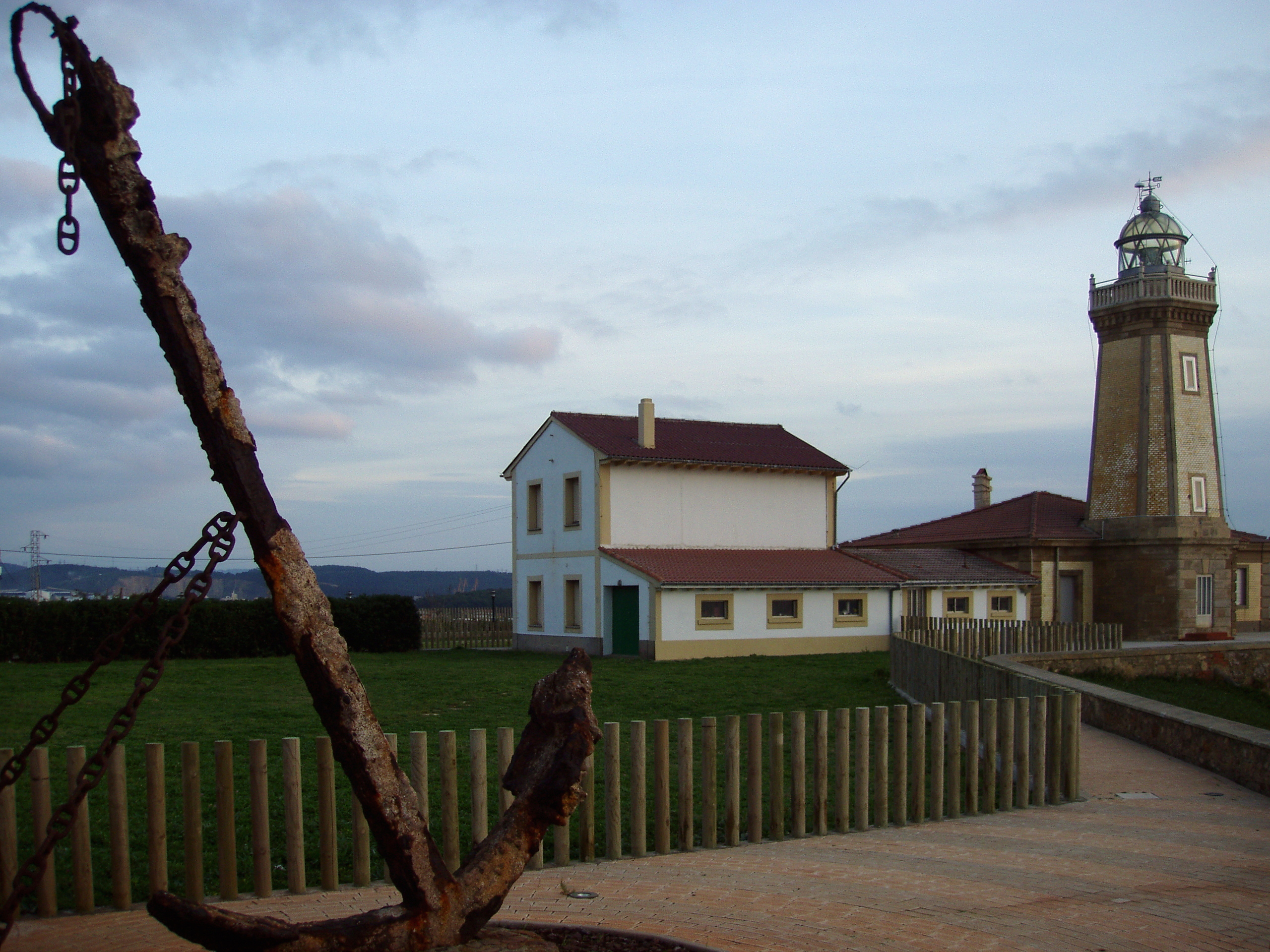 Faro de Avilés, 02